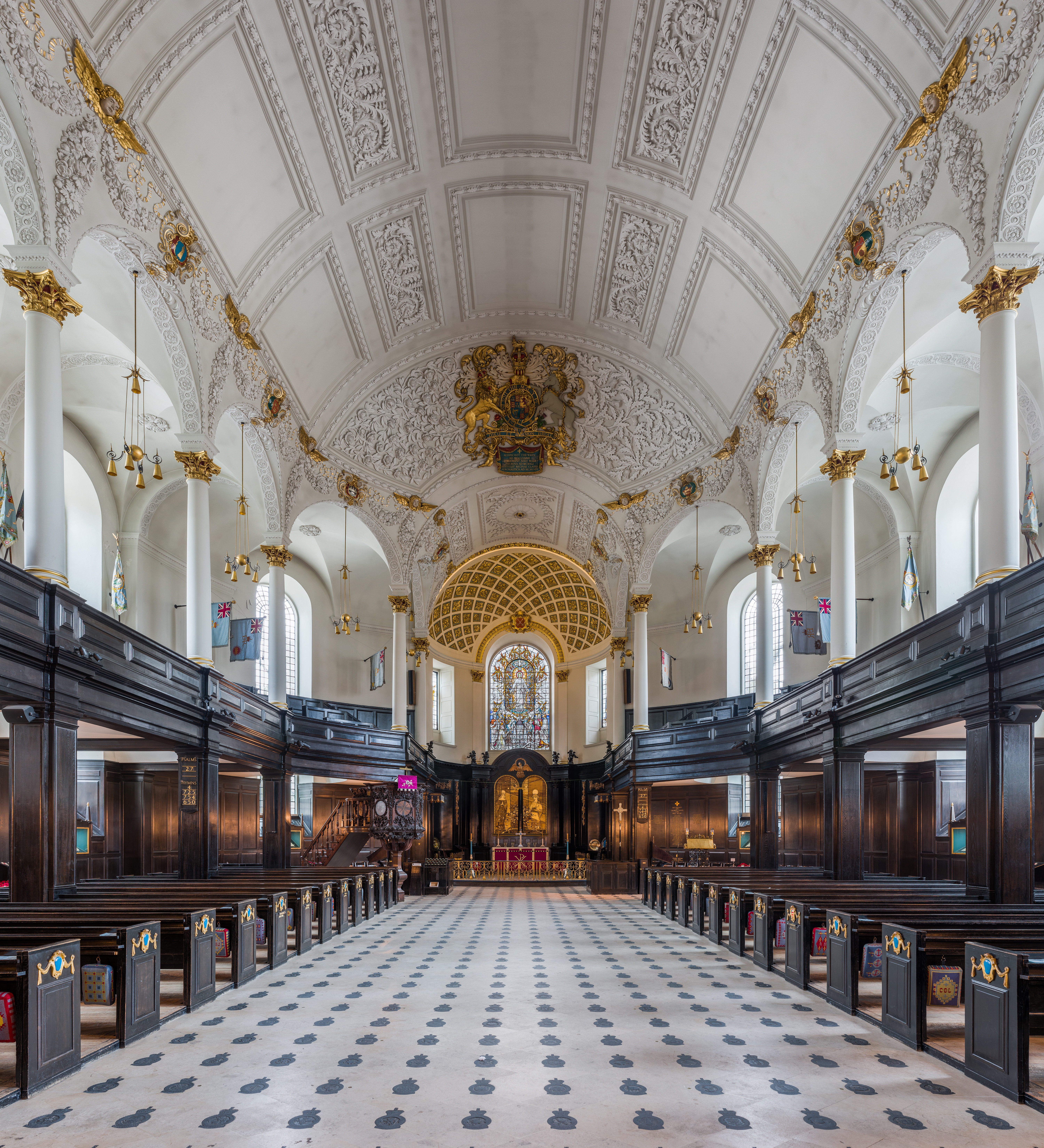 Saint Clement Danes Church in London, England.